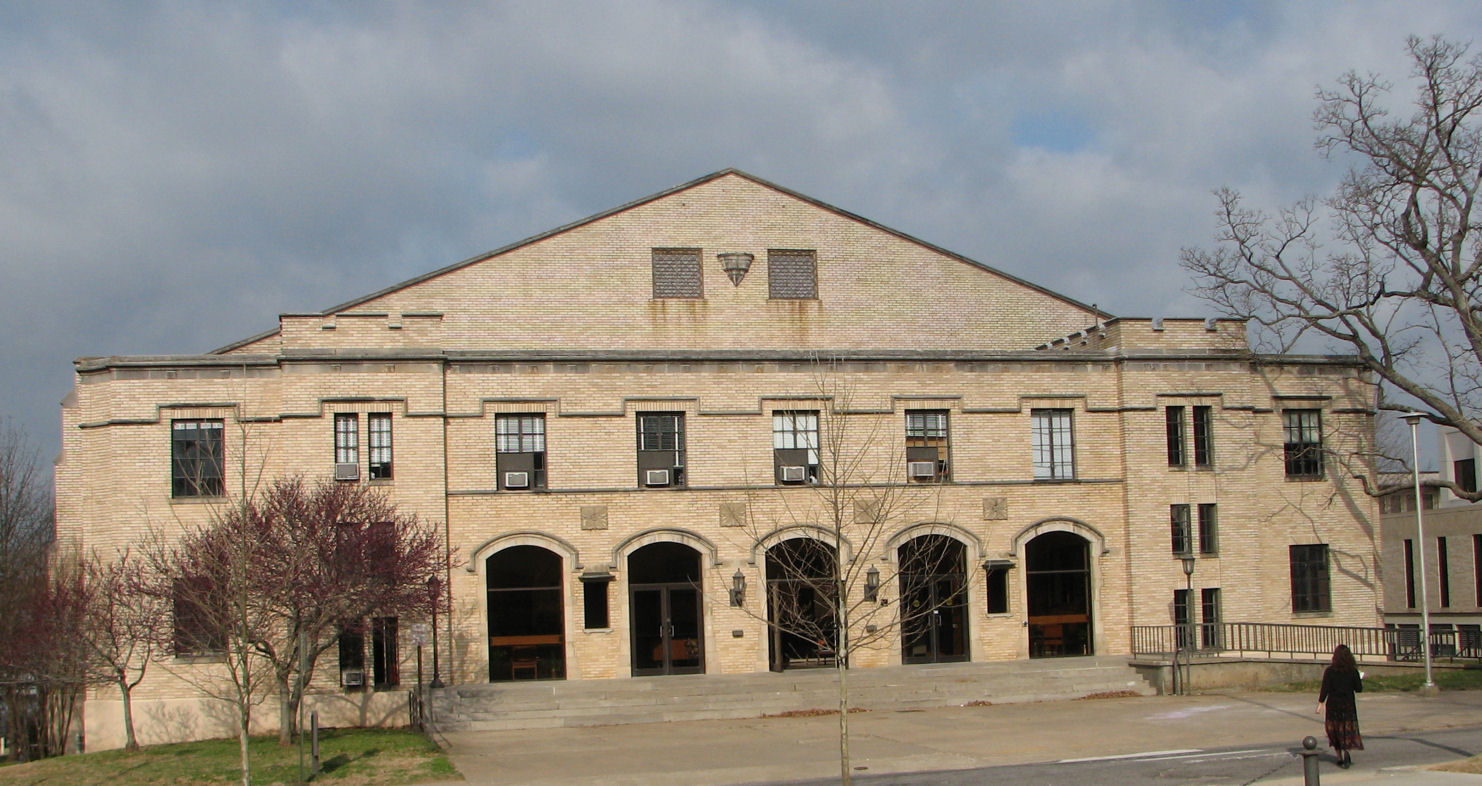 The old field house at the University of Arkansas, now home to the Arkansas Center for Space and Planetary Sciences.